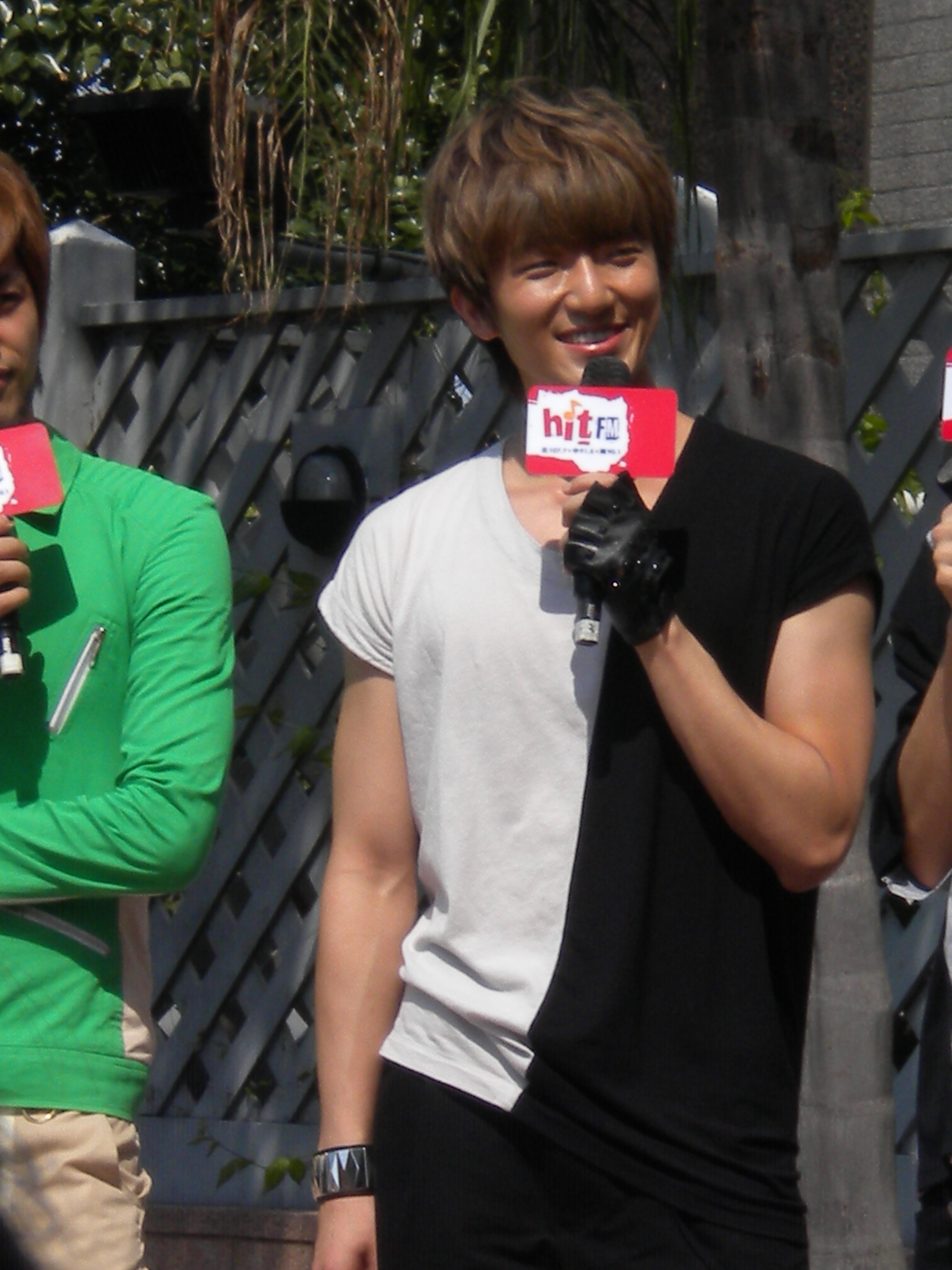 Da mouth's Harry Chang